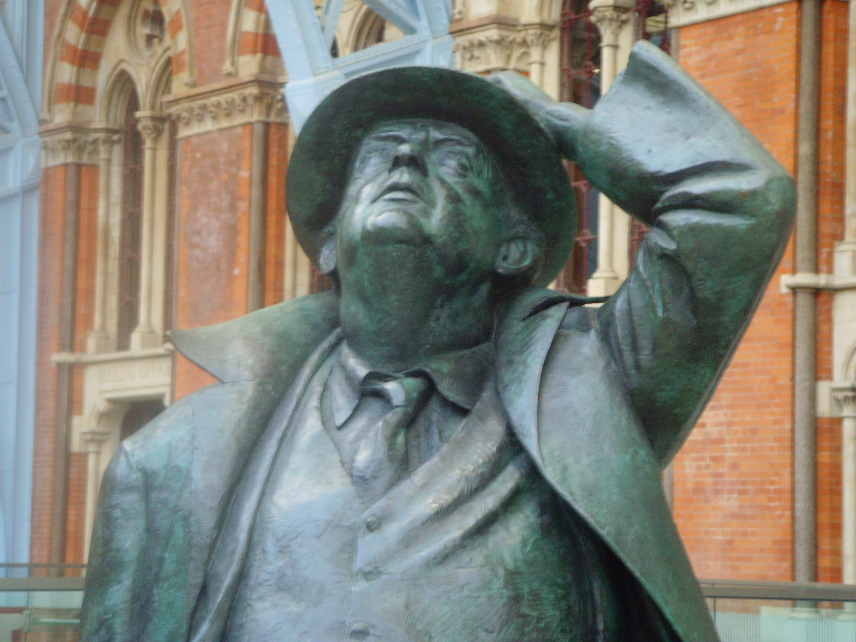 Statue of John Betjeman at St Pancras station in London